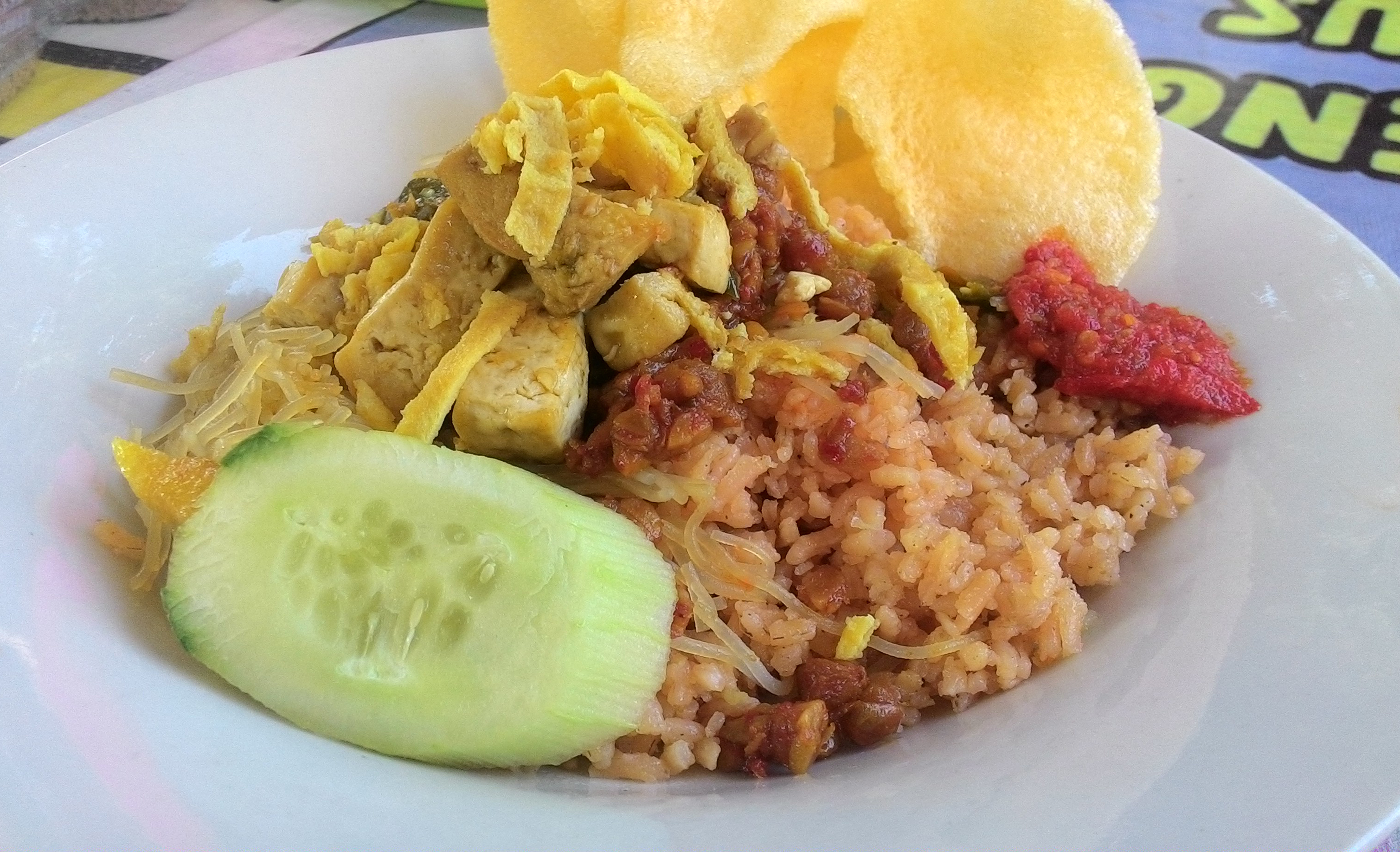 Nasi minyak (oily rice) served in Palembang, South Sumatra, Indonesia. Nasi minyak is a spicy rice dish cooked with minyak samin (ghee) and spices. Served with bihun (rice vermicelli), tofu, shredded omelette, slice of cucumber, krupuk cracker and sambal chili paste.